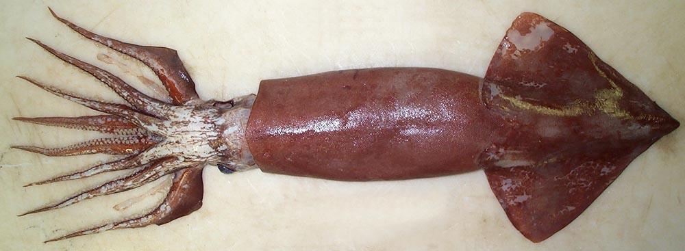 Pholidoteuthis massyae (411 mm ML) from sub-Antarctic waters near New Zealand at 50°01'S, 168°46'E (taken as live specimen)